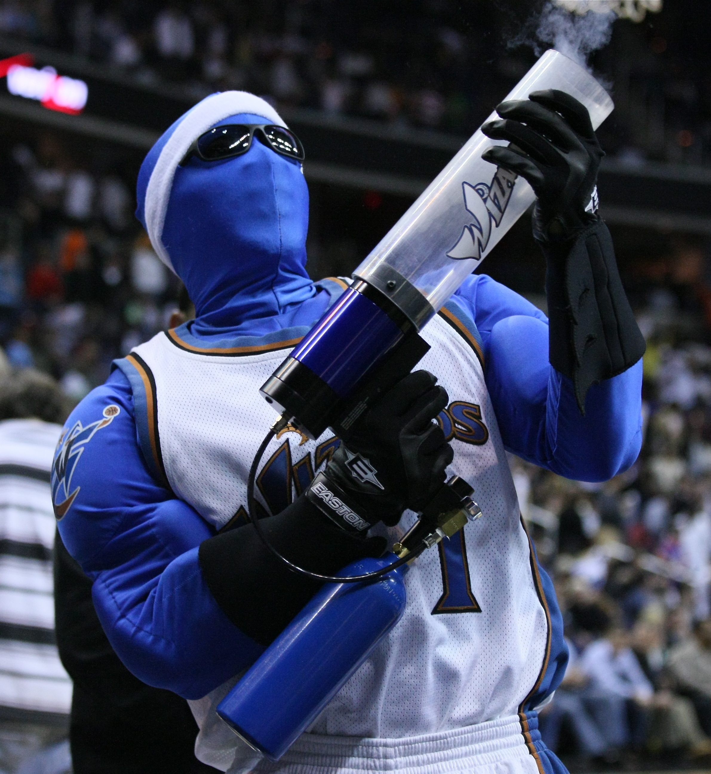 Wizards G-Man, mascot of the Washington Wizards basketball team